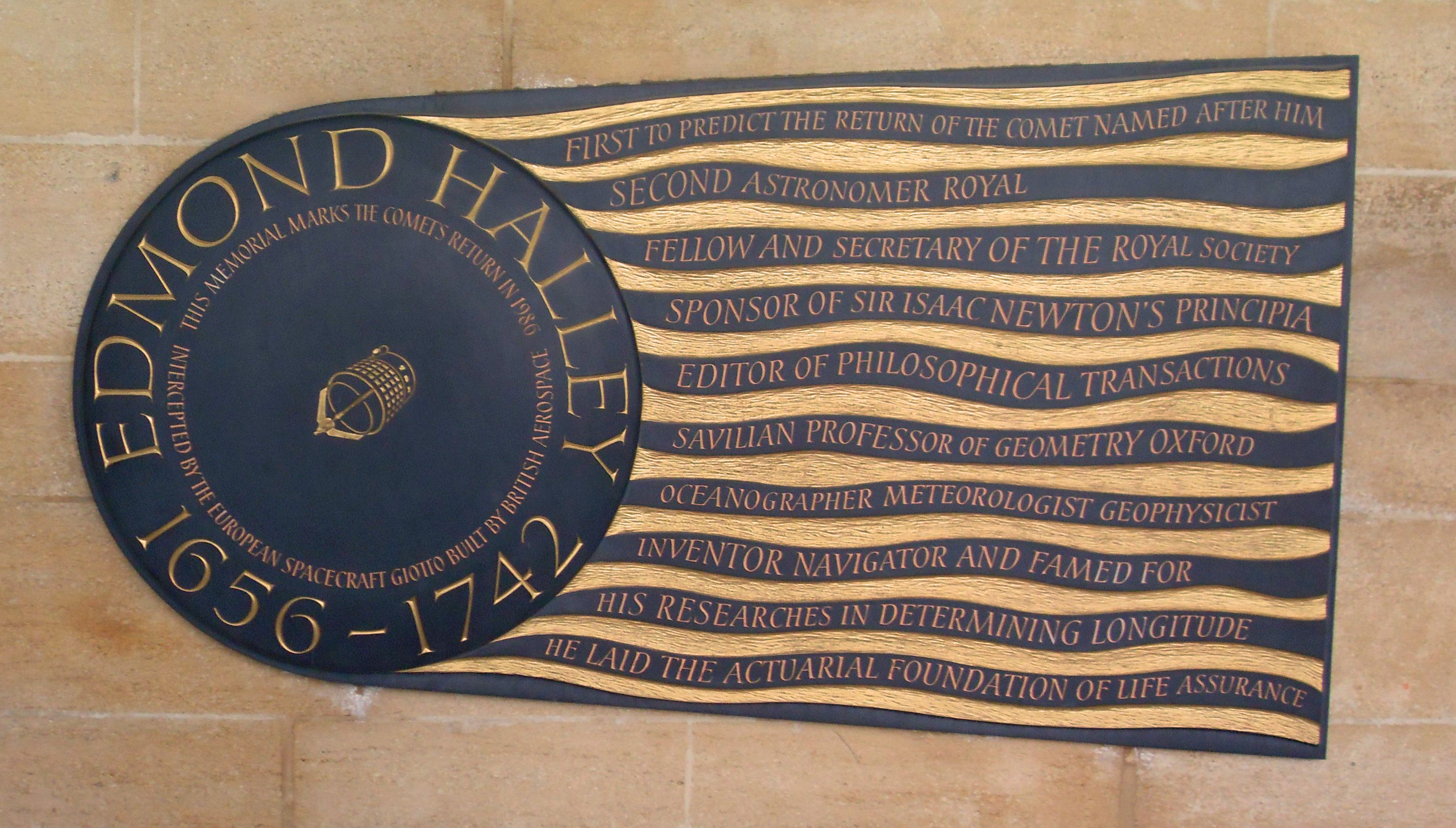 Plaque commemmorating Edmond Halley in the South Cloister of Westminster Abbey, London, England.